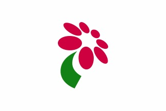 Flag of Minamiboso Chiba